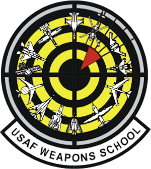 Emblem of the USAF Weapons School (not official)